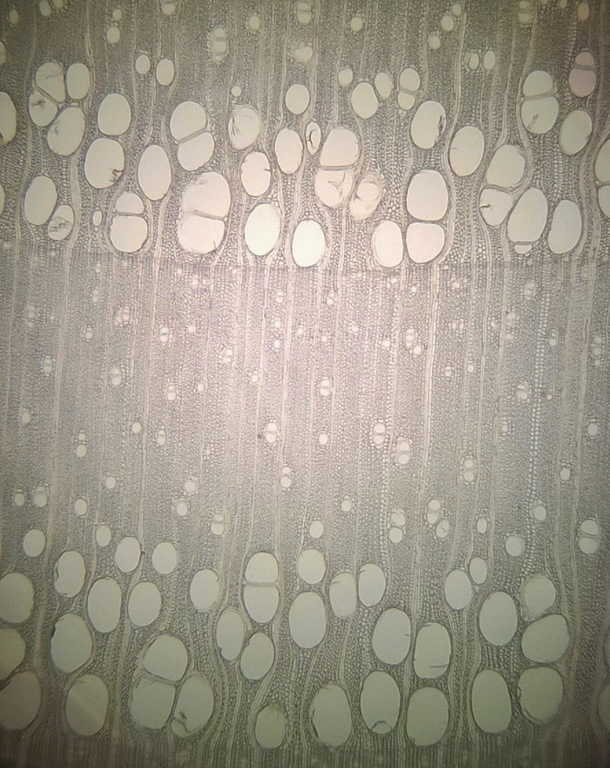 Cross section of wood Fraxinus excelsior 25x enlarged